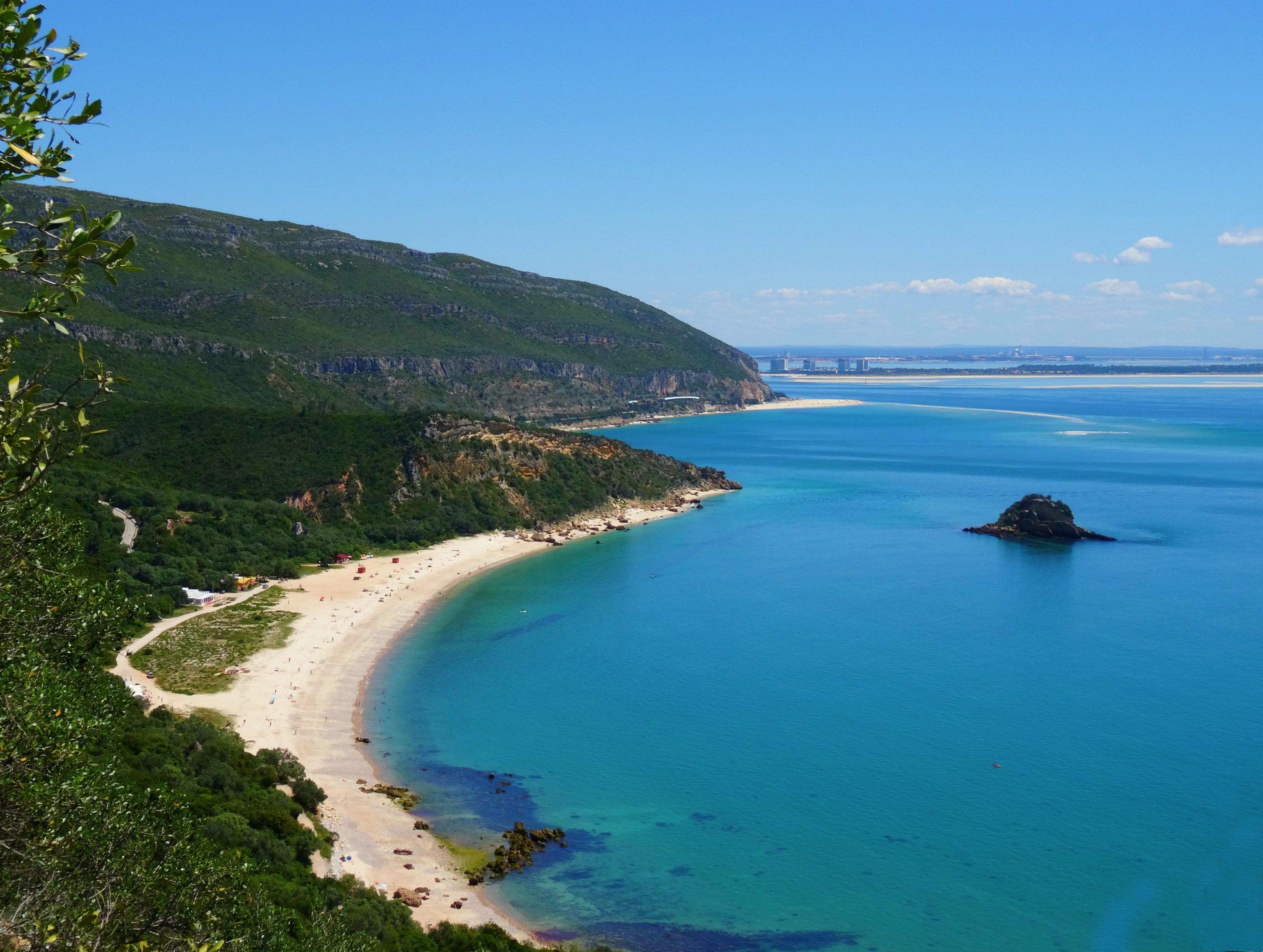 Beach in Portinho da Arrabida, natural park, Serra da Arrabida. Setubal - Portugal